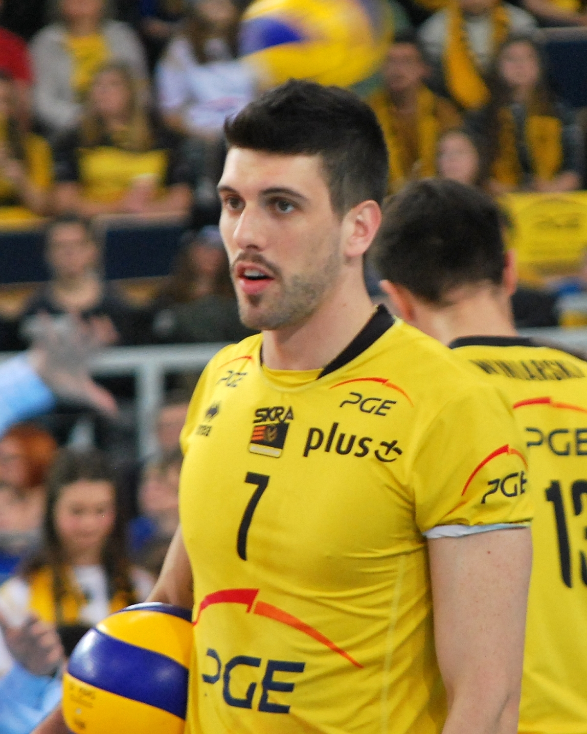 Facundo Conte, volleyball player from Argentina